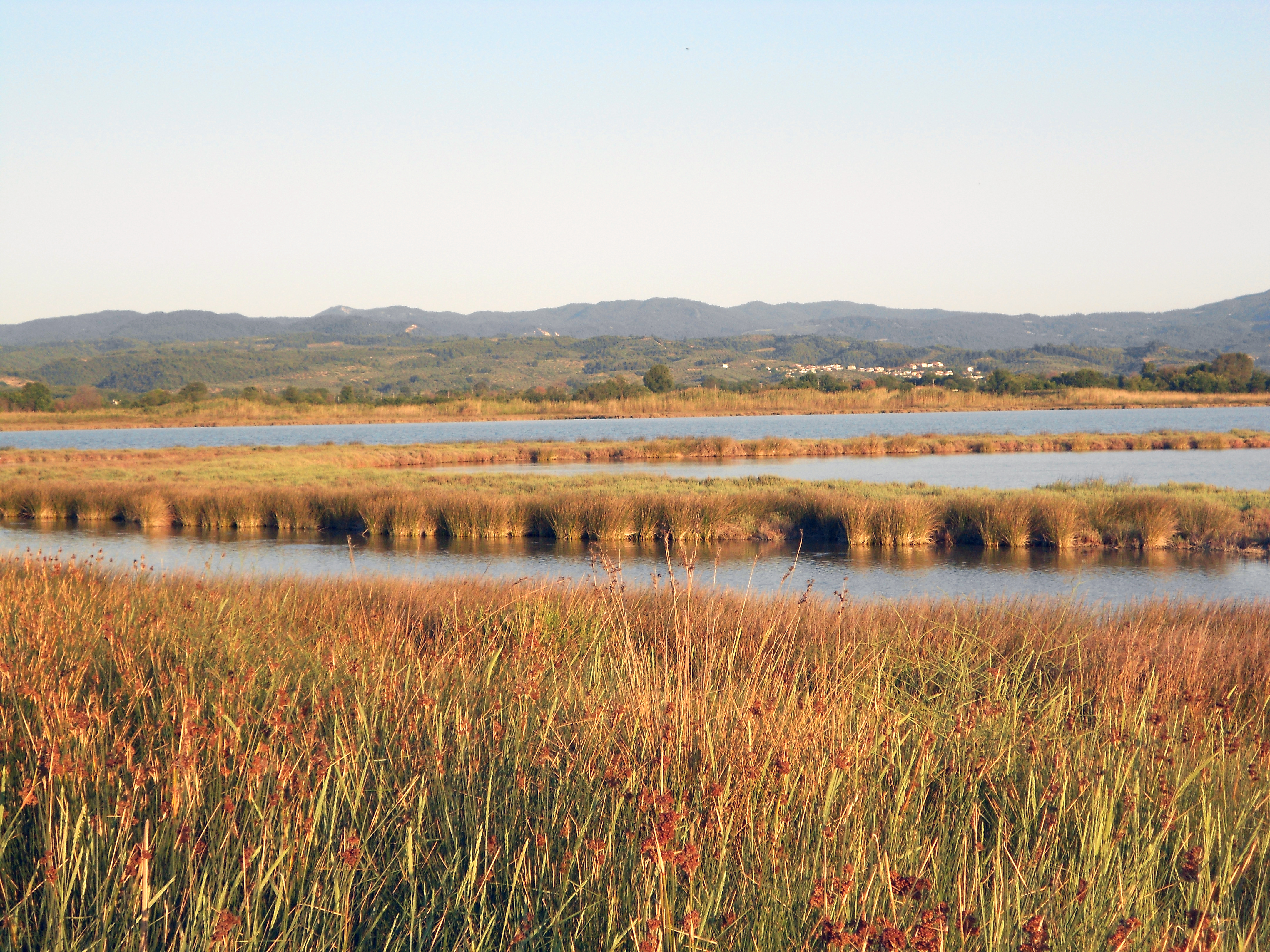 This is a photography of Natura 2000 protected area with ID GR2420007